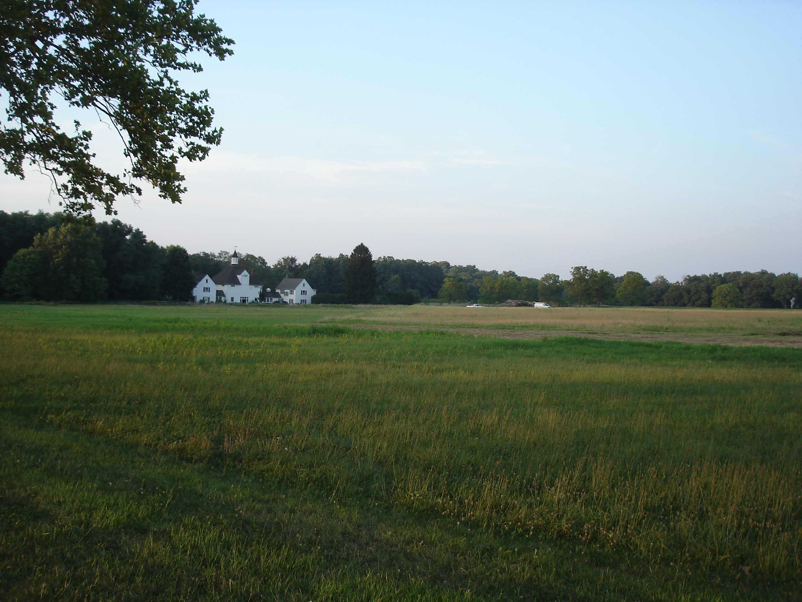 One of the main entrances in Tyler State Park, including the building of the Guild of Craftsmen. It is located in Richboro.